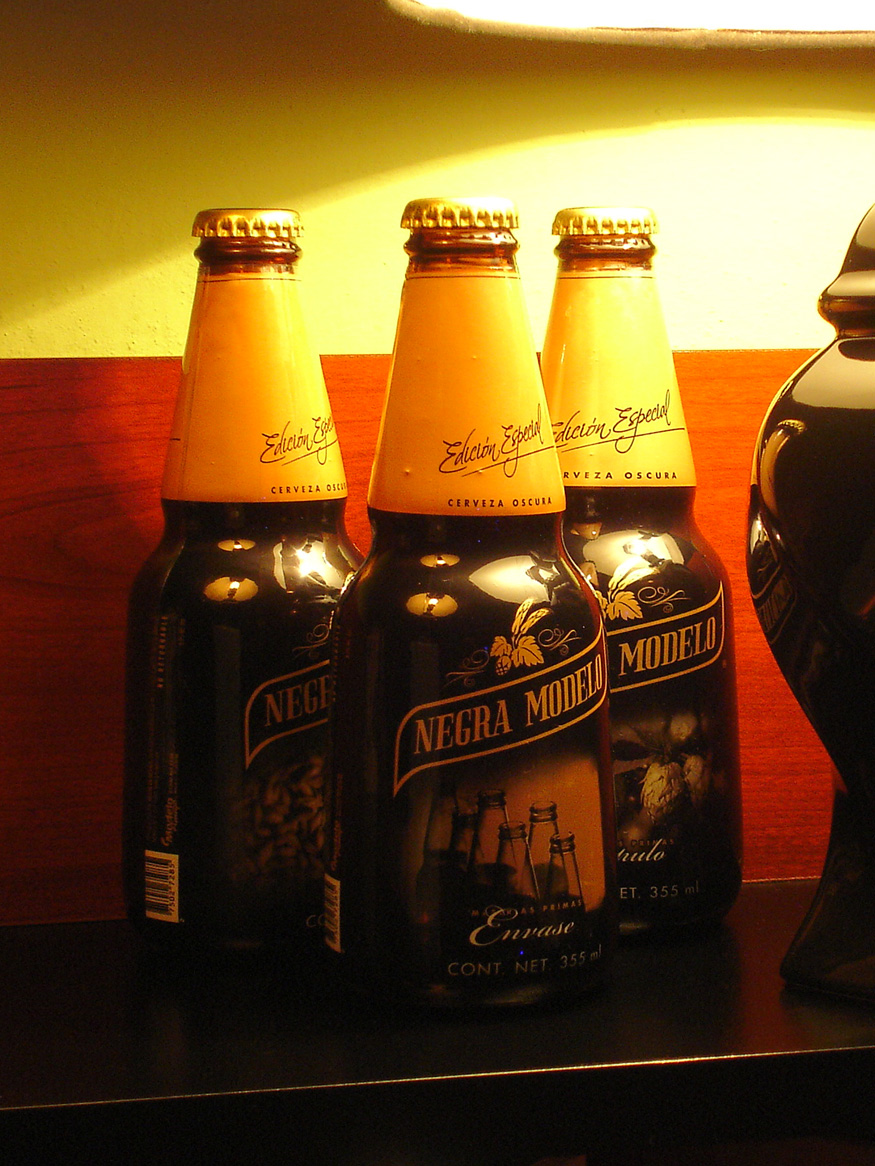 Negra Modelo Beer Bottles